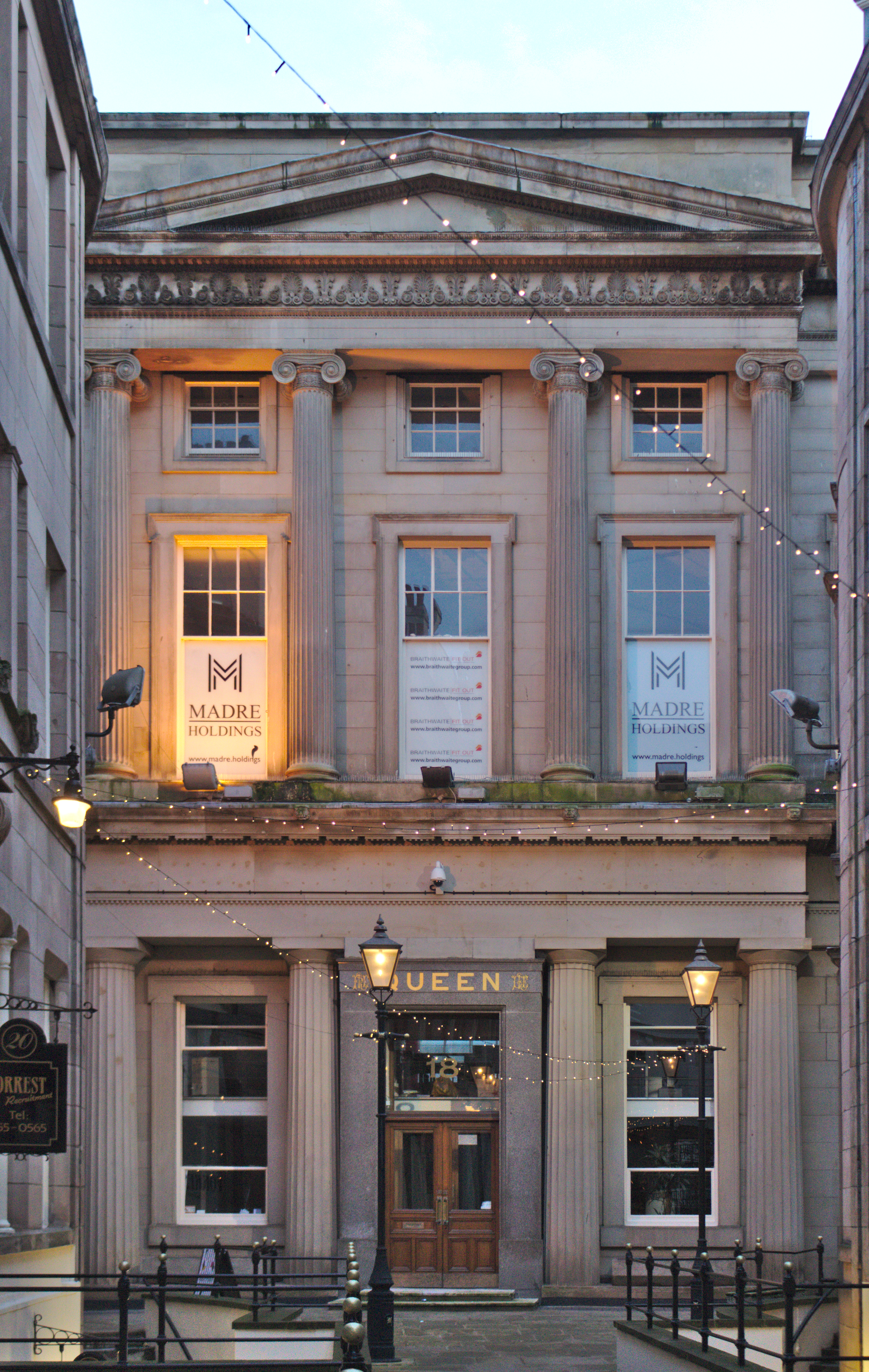 Seen along Queens Avenue, mid-afternoon, around Christmas 2019.